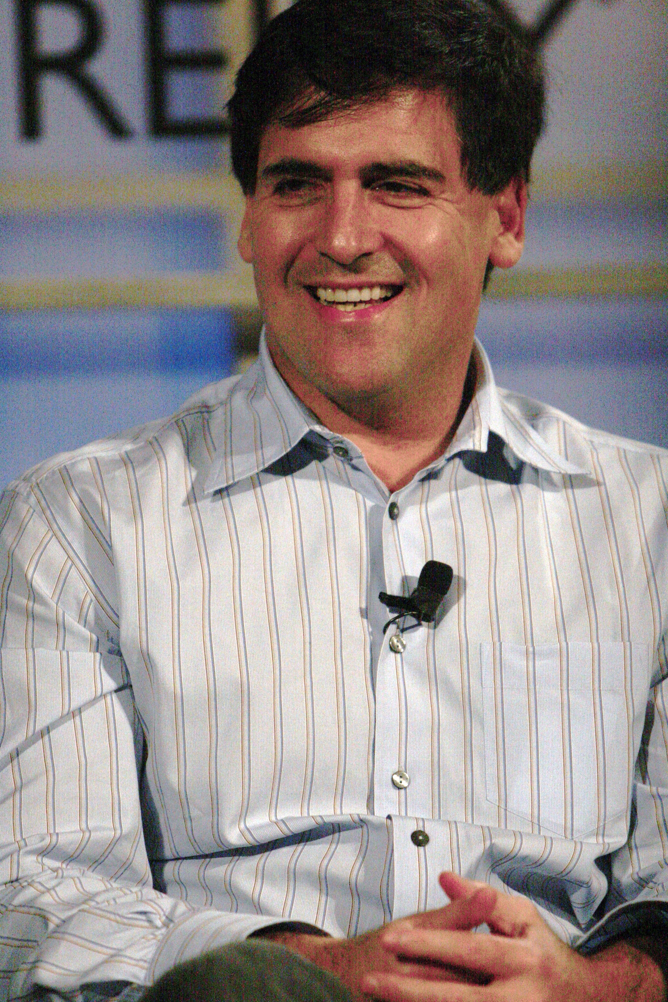 Mark Cuban at the Web 2.0 conference 2005.